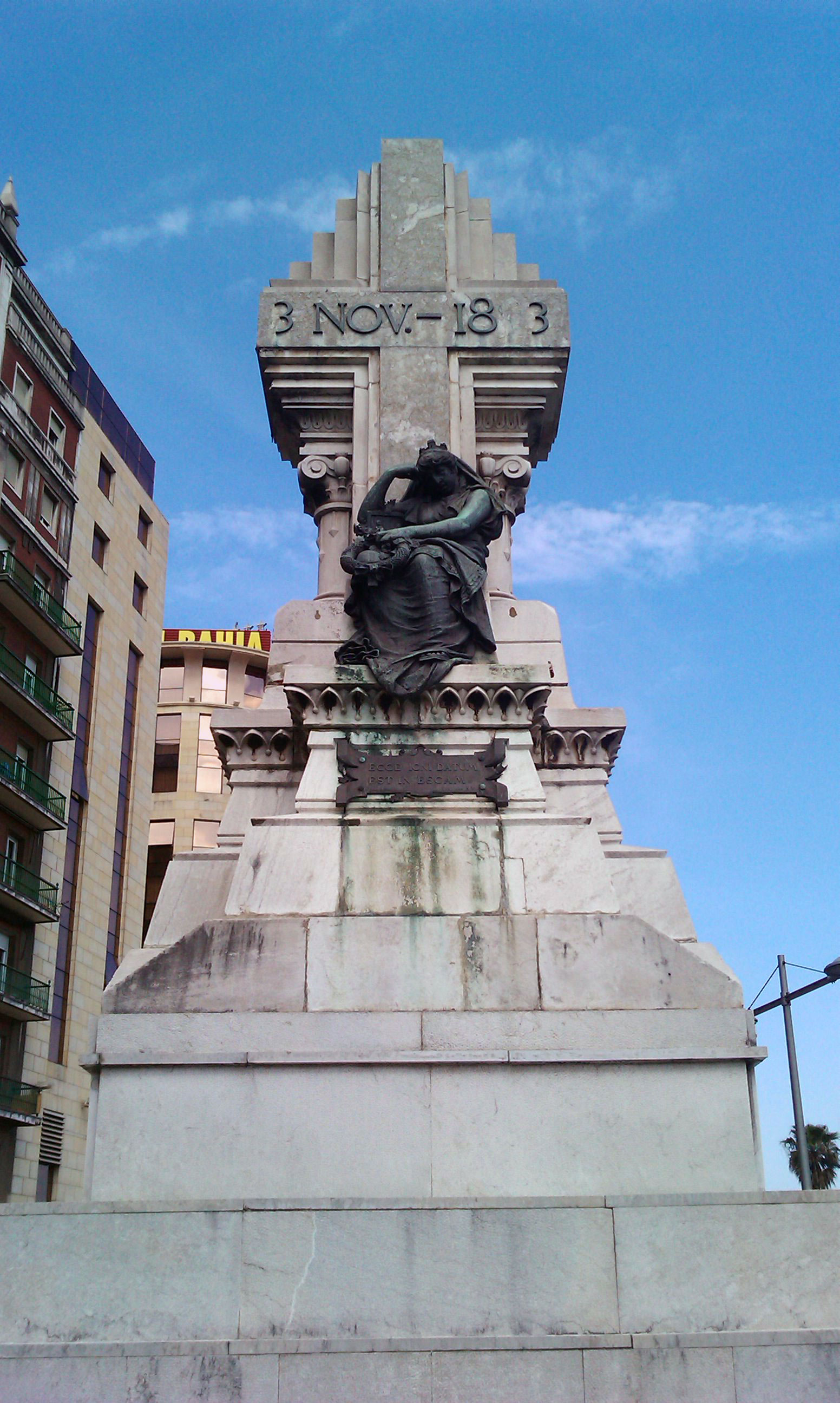 Memorial of victims of the explosion at the ship Cabo Machichaco, in Santander, Spain